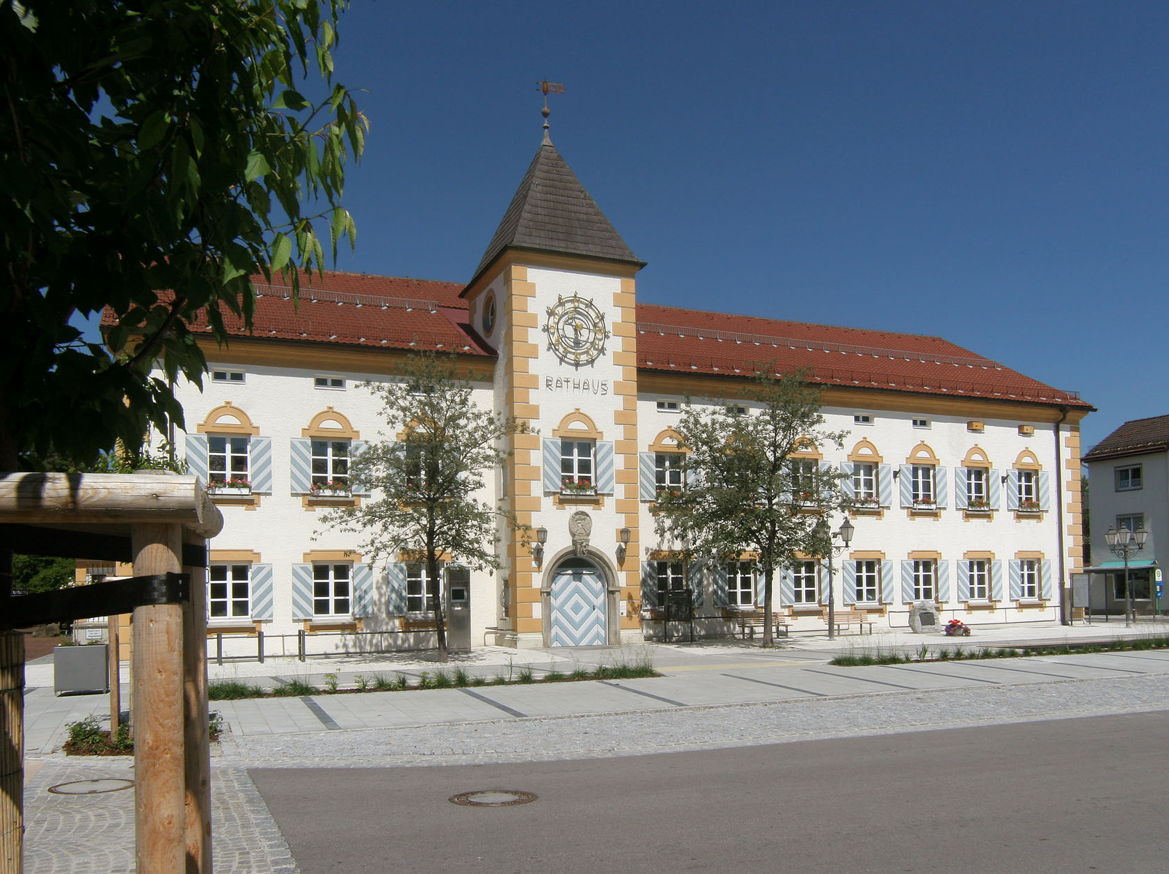 Town Hall of Geretsried-Gartenberg in 2007